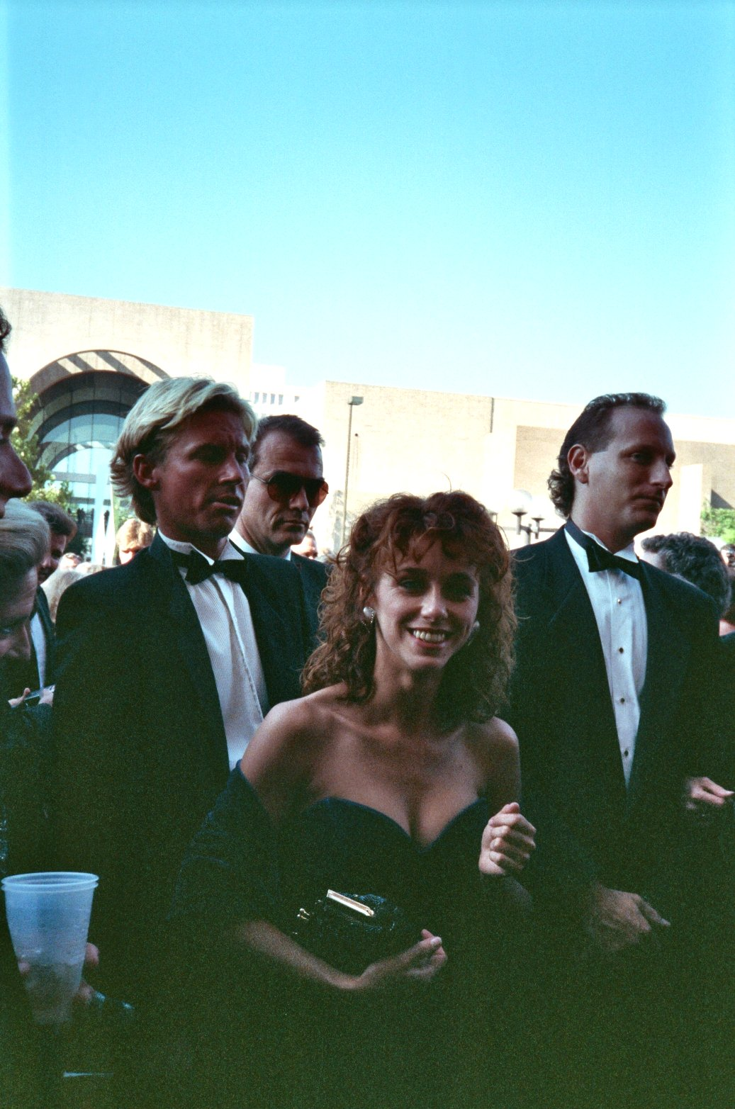 1990 Emmy Awards NOTE: Permission granted to copy, publish, broadcast or post any of my photos, but please credit "photo by Alan Light" if you can. Thanks. Scanned from the original 35MM film negative.